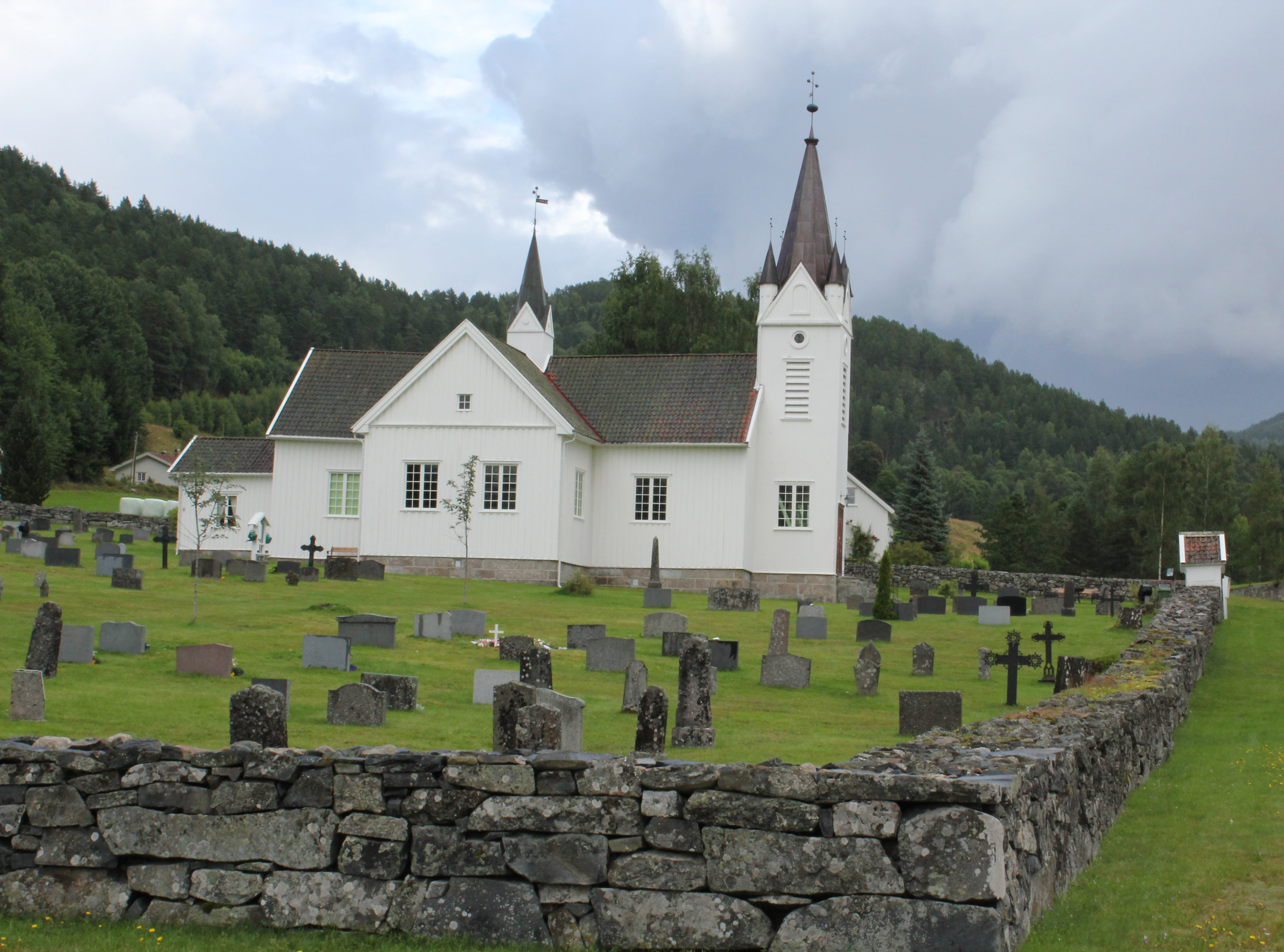 The old (18th century) wooden church called Nissedal kirke, Norway